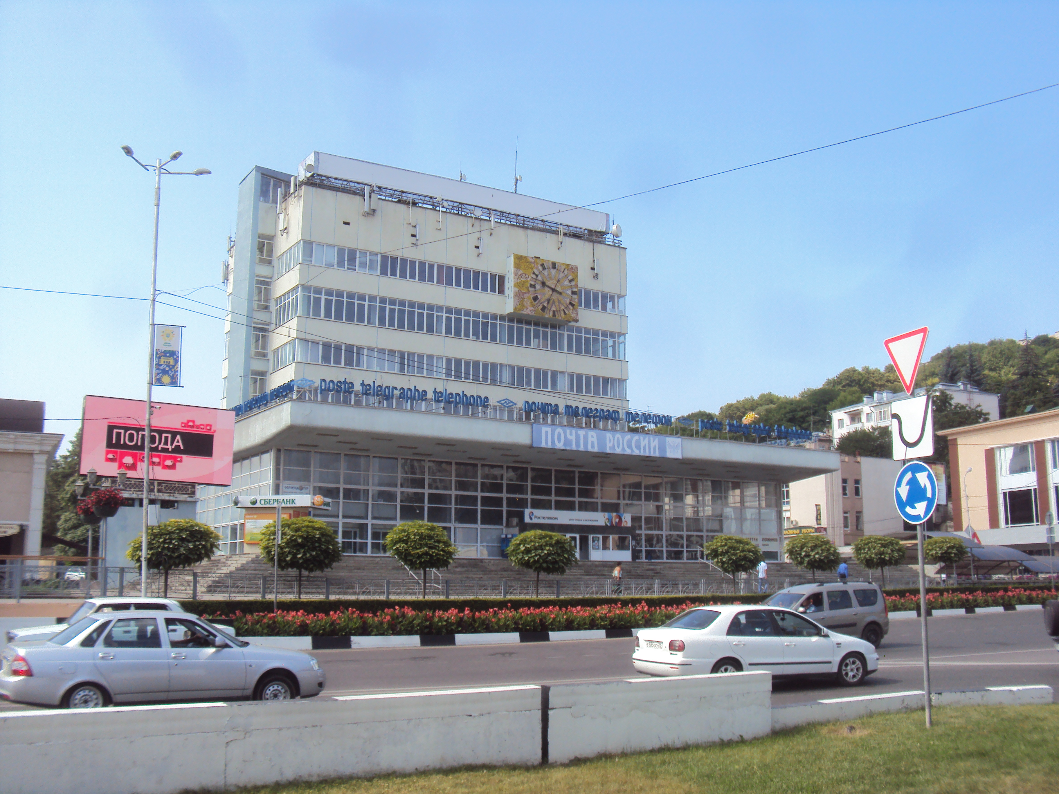 Link building homes